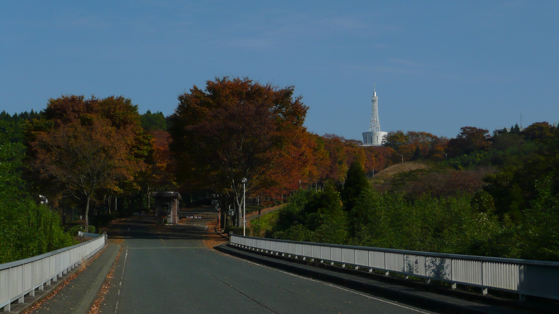 Tokai University Aso Campus (Minamiaso Village, Kumamoto, Japan)